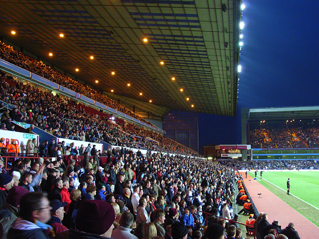 Villa Park Looking along the Trinity Road Stand from the southern end of the lower part of the Holte End. The Trinity Road Stand is the largest of the stands in Villa Park. It was rebuilt in 2001, bringing the capacity of the ground up to approximately 42,600.